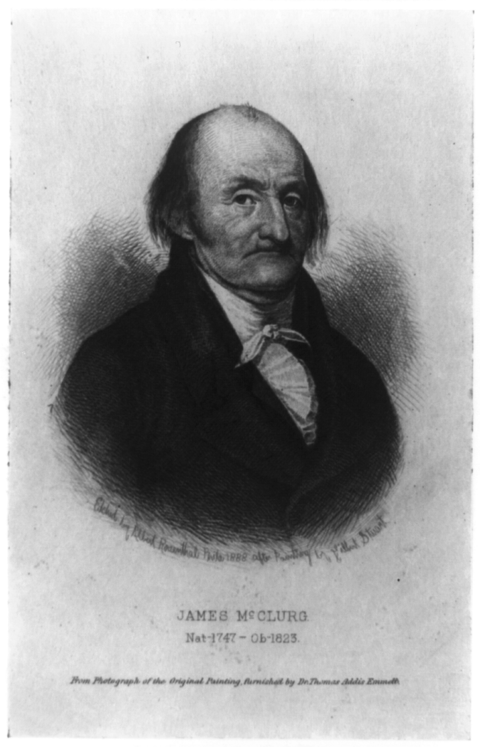 James McClurg, head-and-shoulders portrait, facing slightly right.